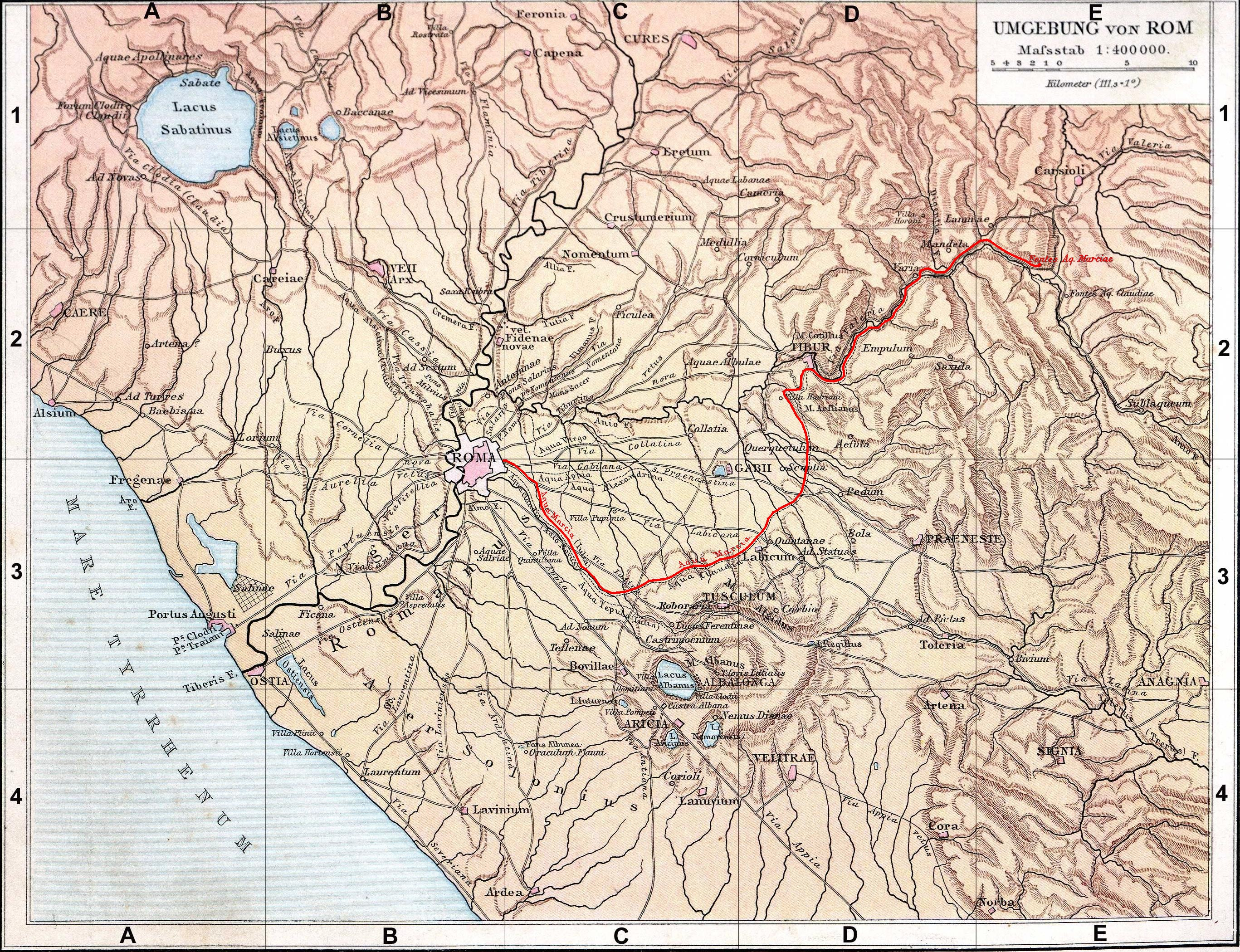 Fond de carte de 1886 (G. Droysens Allgemeiner Historischer Handatlas), libre de droit (Image:Rom_Umgebung.jpg), avec l'aqua Marcia en rouge.